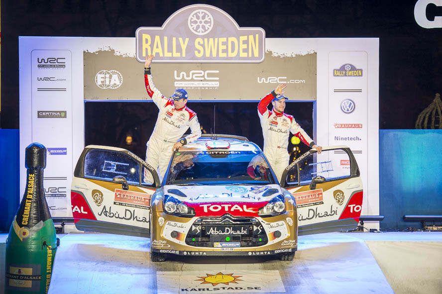 Rally Sweden 2014 Citroen DS3 WRC,Citroen Total Abu Dhabi WRT,Citroen Total Abu Dhabi World Rally Team,Jonas Andersson,Mads Östberg,Motorsport,Podium,Rally,Rally Sweden,Rallye,Rallye Schweden,Siegerehrung